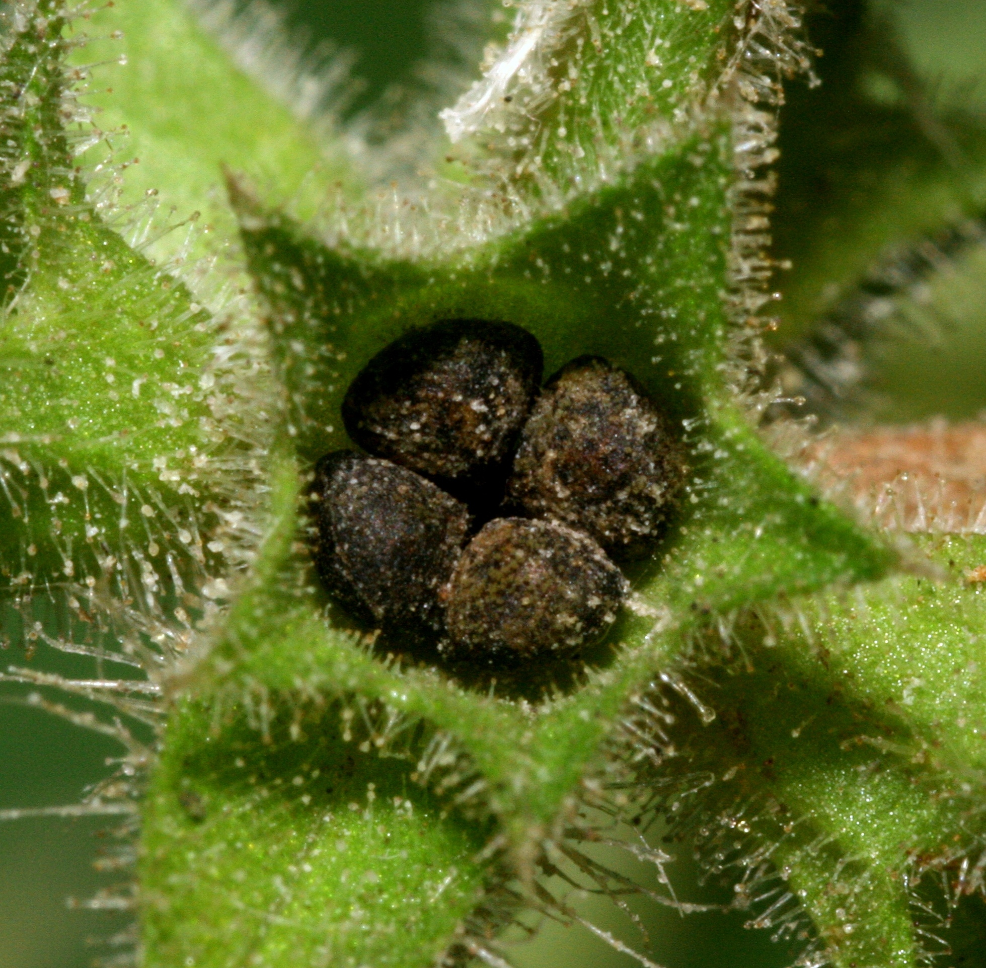 Schizocarp of Stachys sylvatica, Zlin, Czech Republic